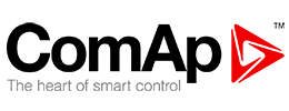 Logo of ComAp a.s.